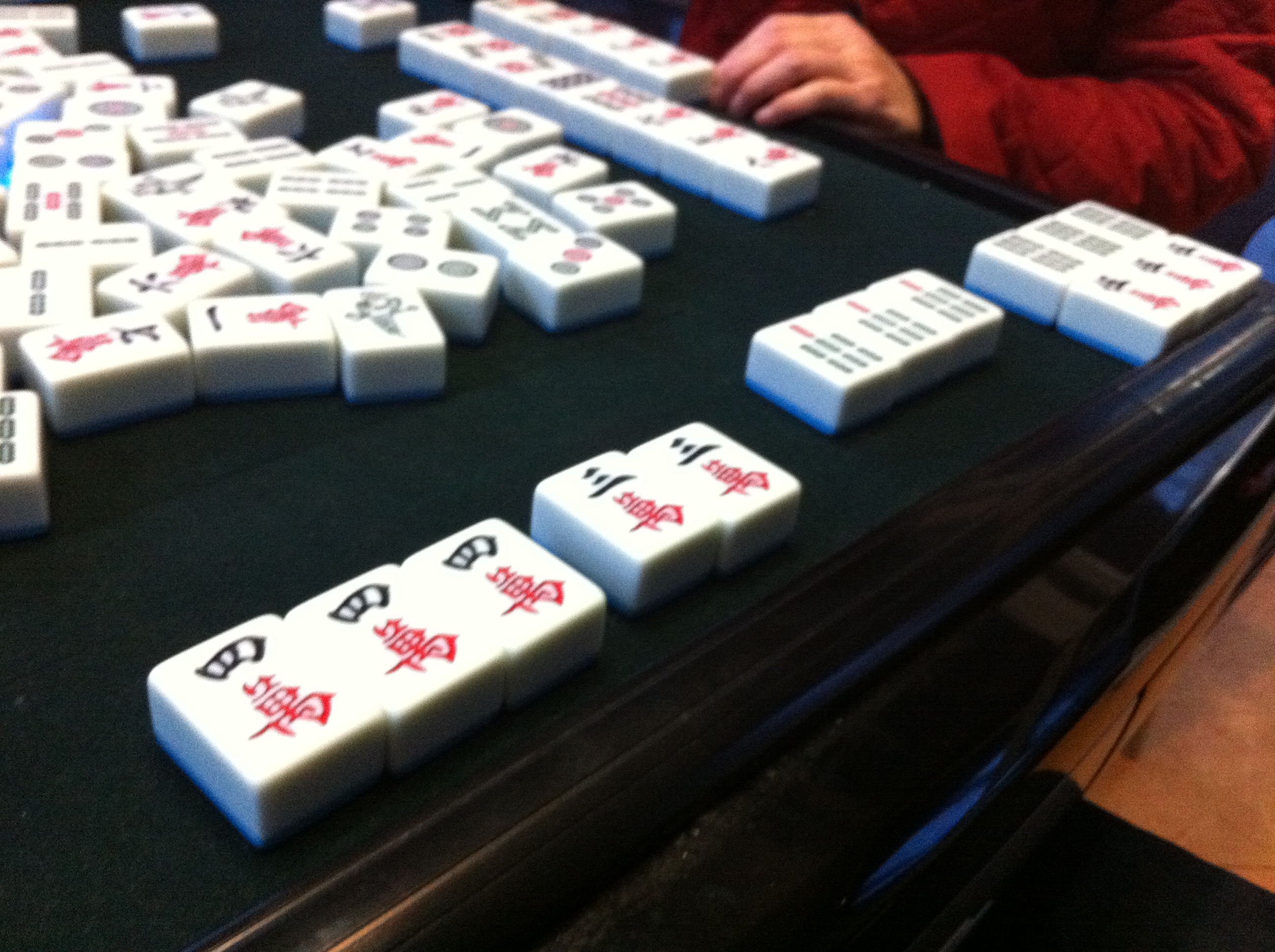 majong